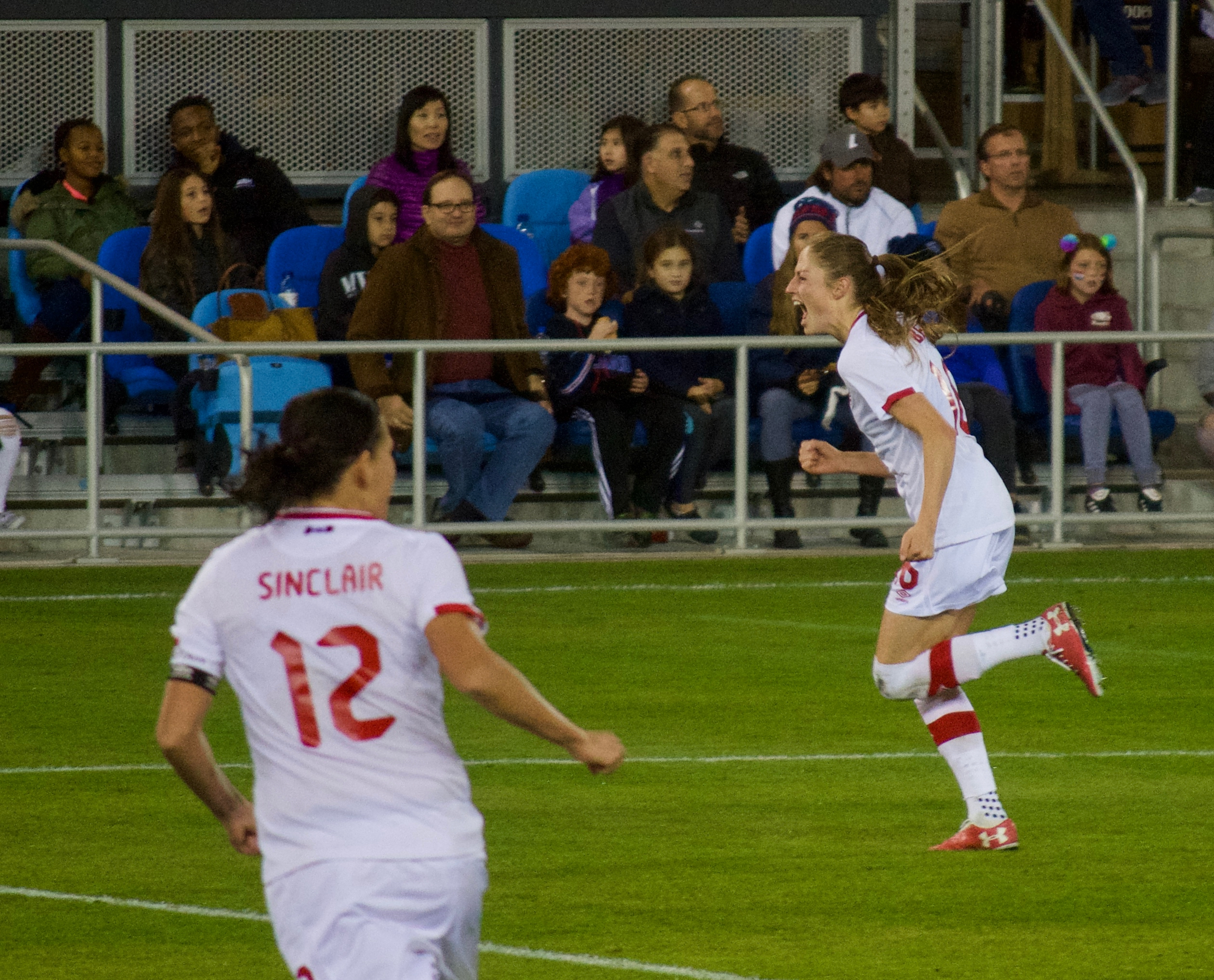 Janine Beckie celebrates after scoring in a friendly at Avaya Stadium, San Jose, California, 12 Nov 2017.